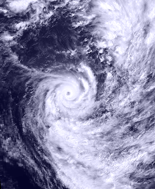 Tropical Cyclone Gavin in the South Pacific Ocean on March 8, 1997.